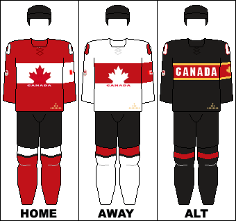 The home, away and alternate jerseys of the Canadian national ice hockey team used at the 2014 Winter Olympics.